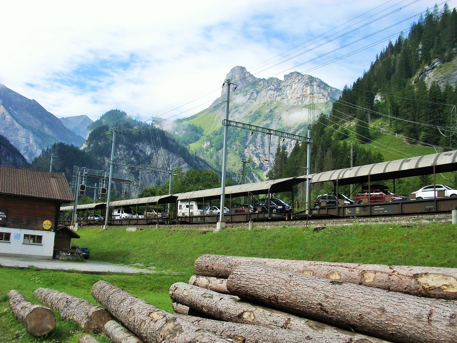 Kandersteg BE, Switzerland